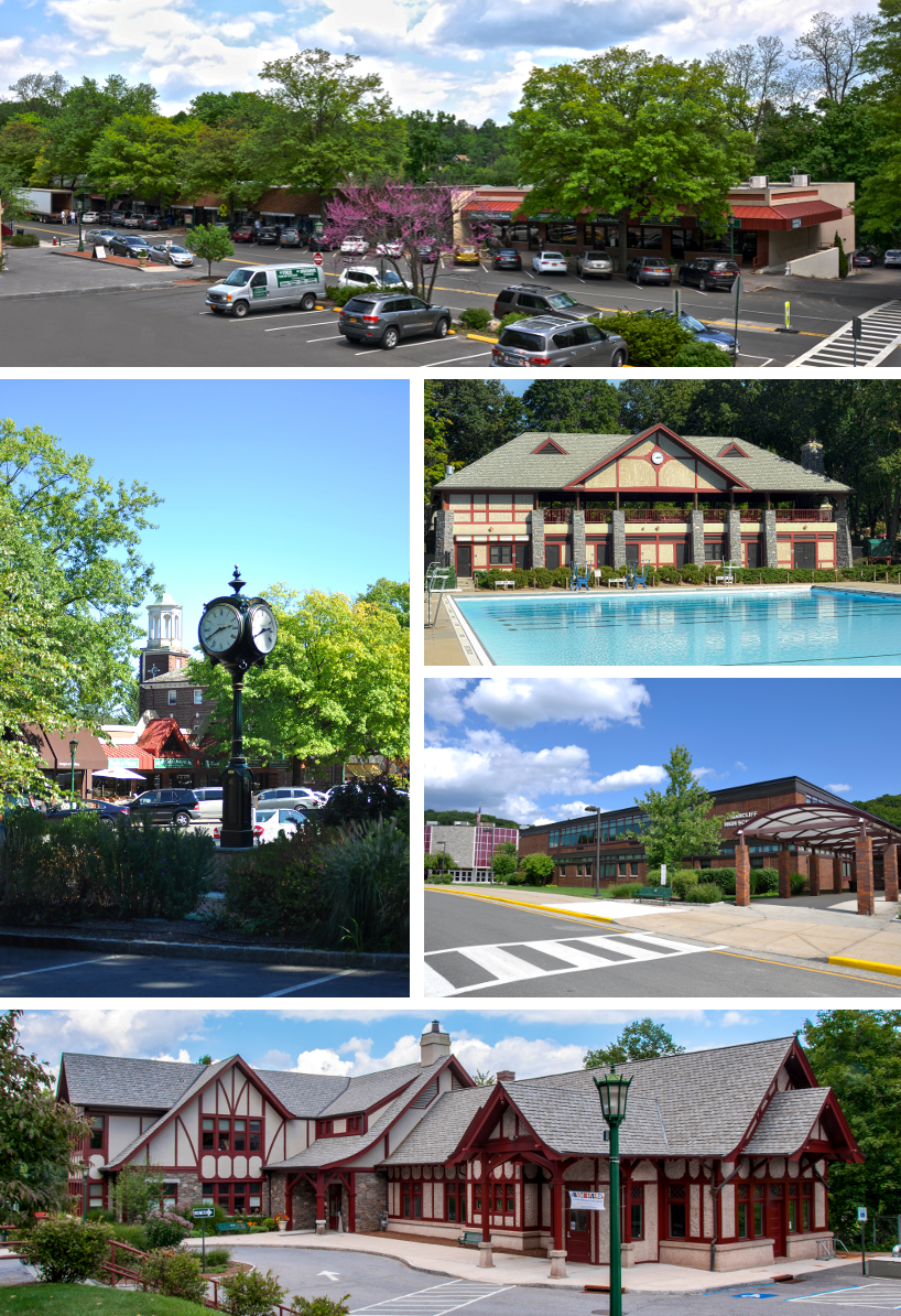 Compilation image of Briarcliff Manor, New York, United States.